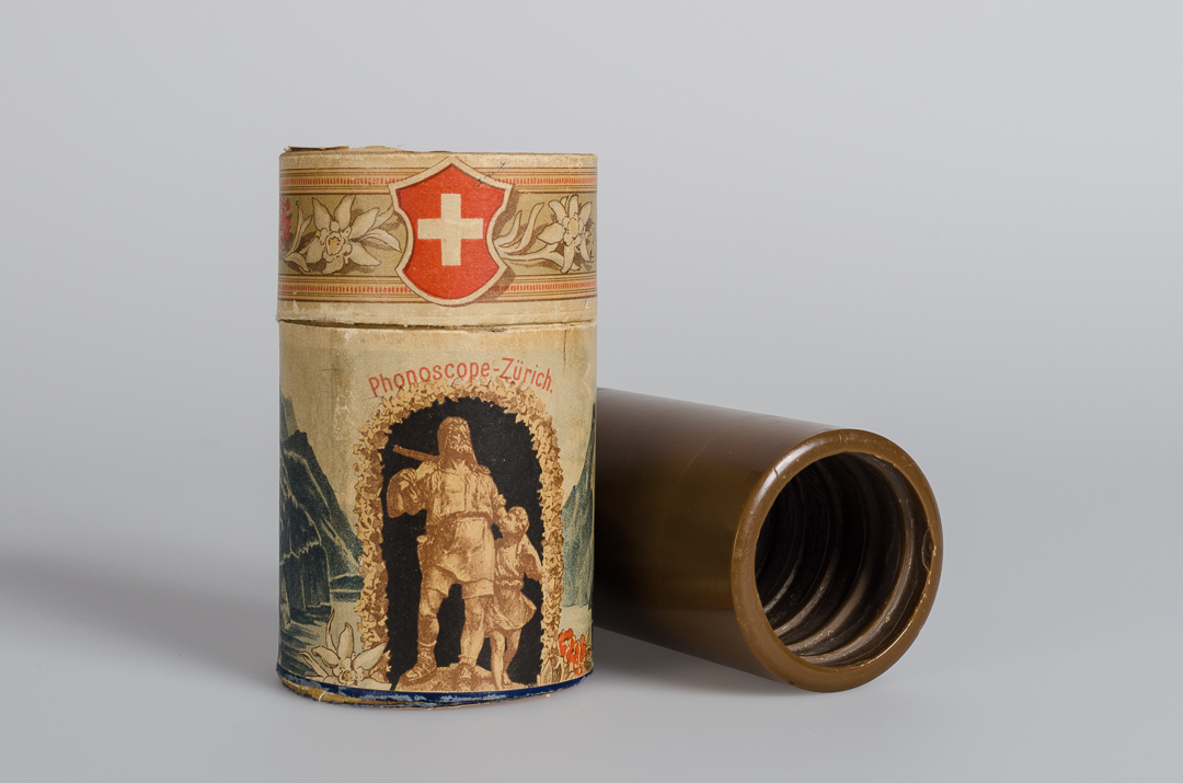 Cylinder Phonoscope-Zürich (1900)